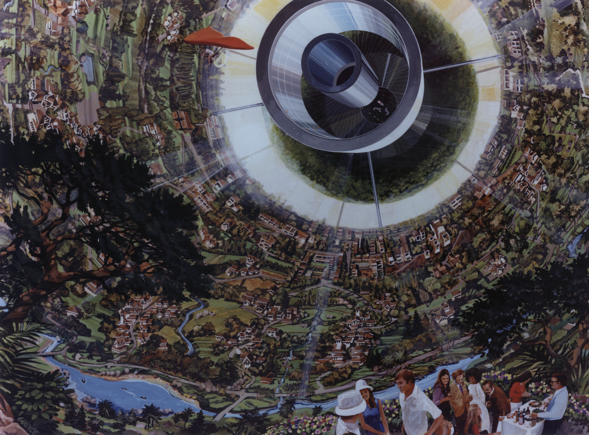 Interior of a Bernal sphere with glider. NASA ID number AC76-0628.